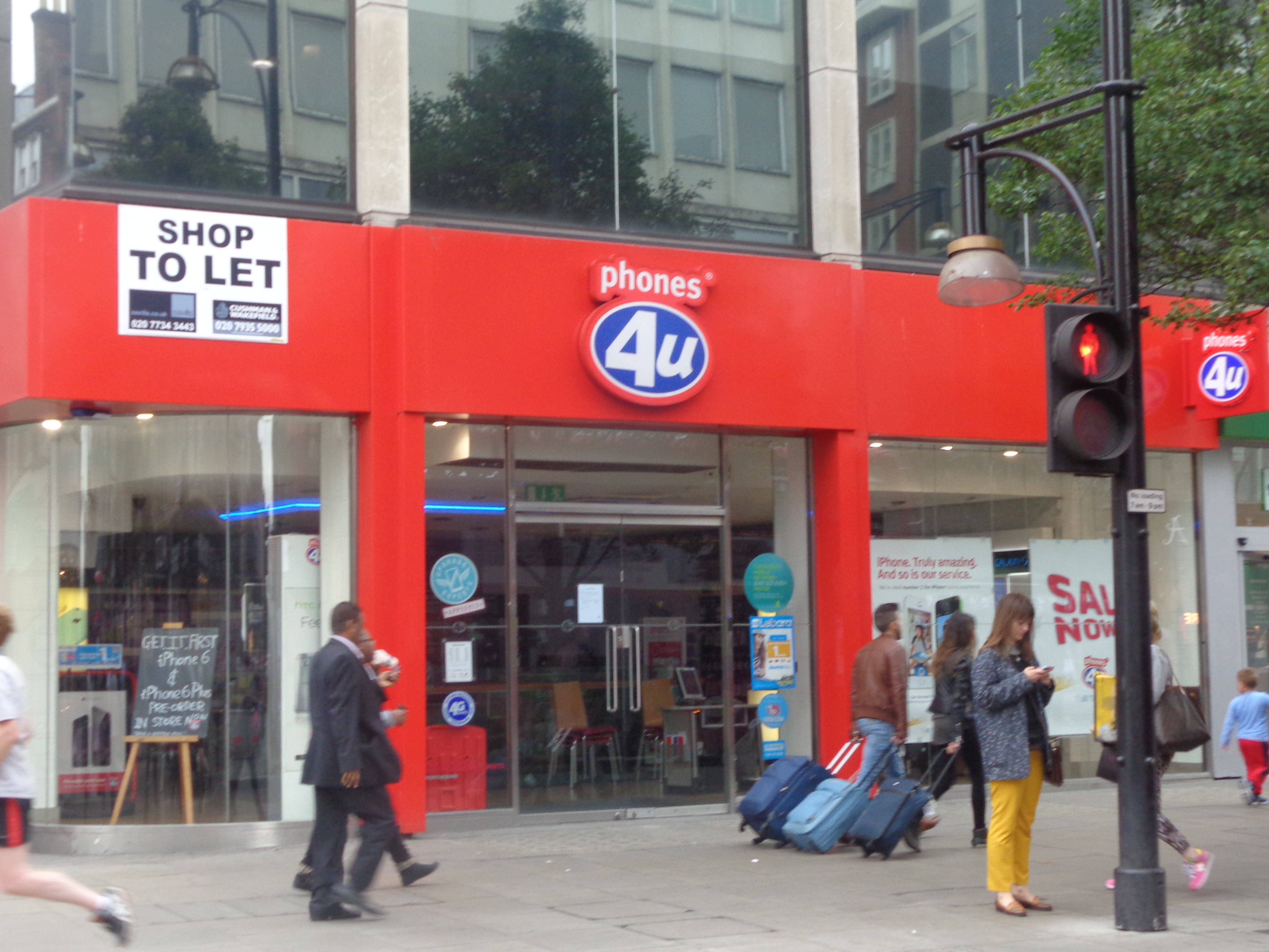 A now closed branch of Phone 4U after the collapse of the chain seen on Oxford Street, London Borough of Camden. Taken around midday on Saturday the 25th of September 2014.